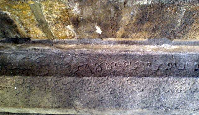 Shilalikhitham